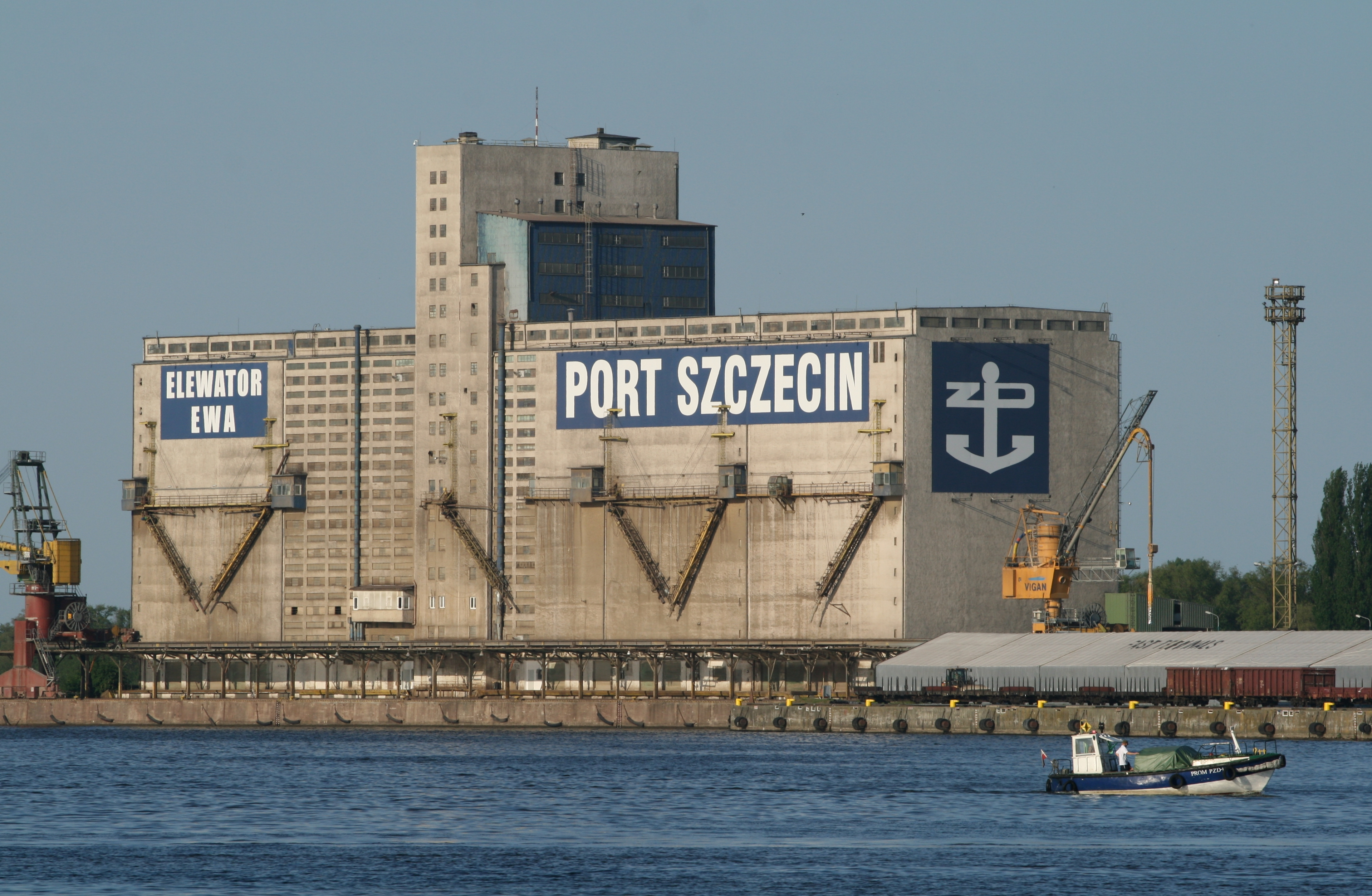 The "Ewa" elevator in Szczecin Port, Poland